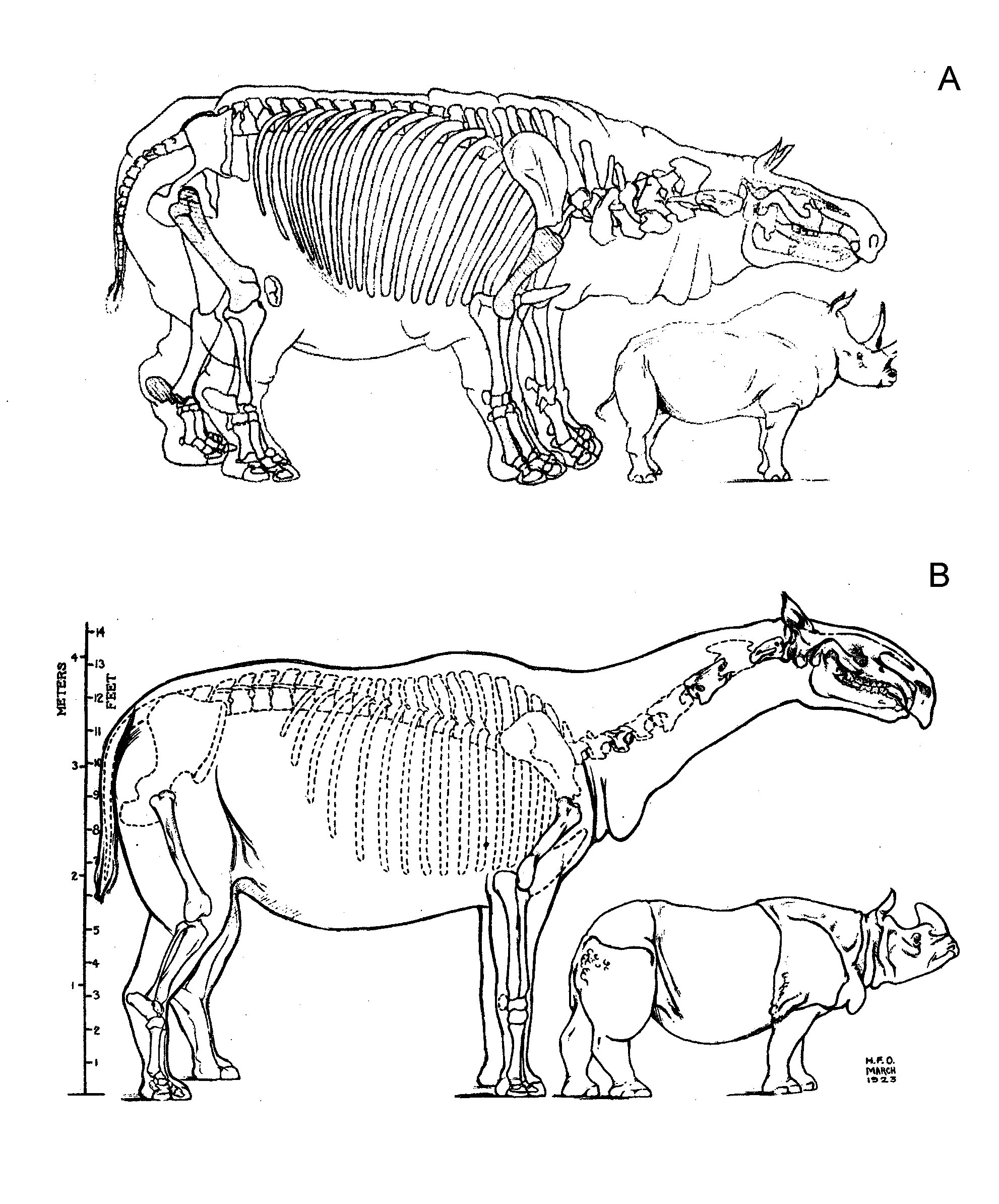 Reconstruction of Baluchitherium by Osborn, published in: Henry Fairfield Osborn: The extinct giant rhinoceros Baluchitherium of Western and Central Asia. Natural History, New York 23 (3), 1923, pp. 208–228 b(p. 226), the lower on ist also published in higher resolution in: Henry Fairfield Osborn: Baluchitherium grangeri, a giant hornless rhinoceros from Mongolia. American Museum Novitates 78, 1923, pp. 1–15 (p. 10)